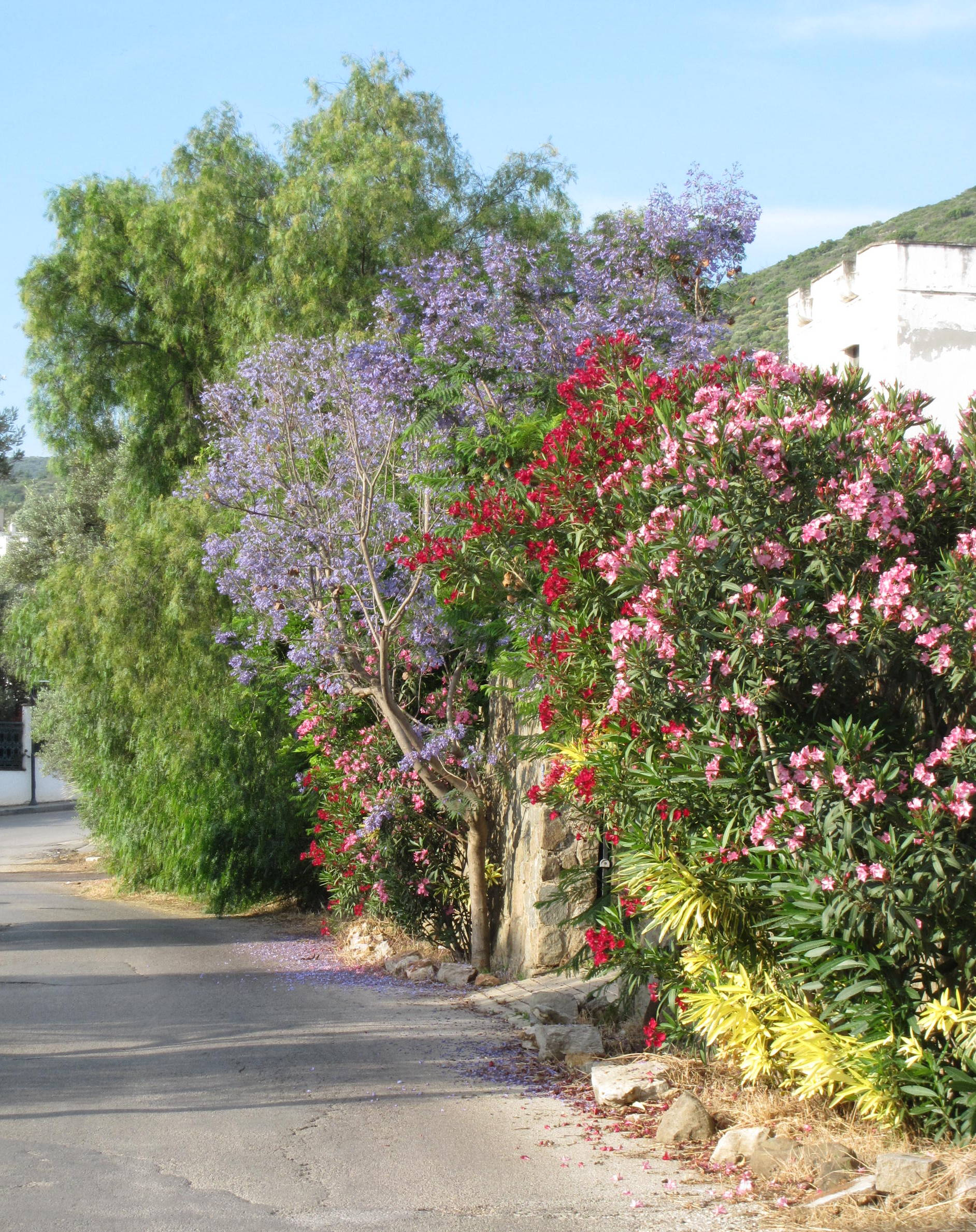 Typical Torba lane